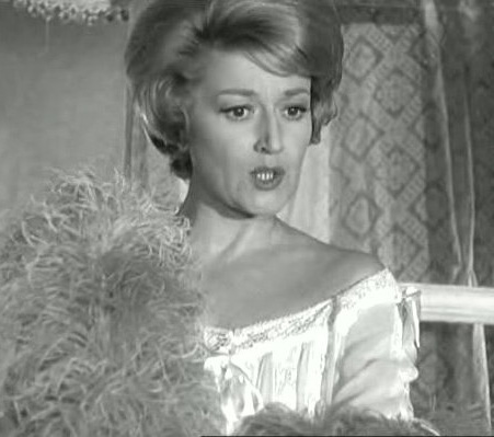 screenshot from the Italian film Chi si ferma è perduto (1960)